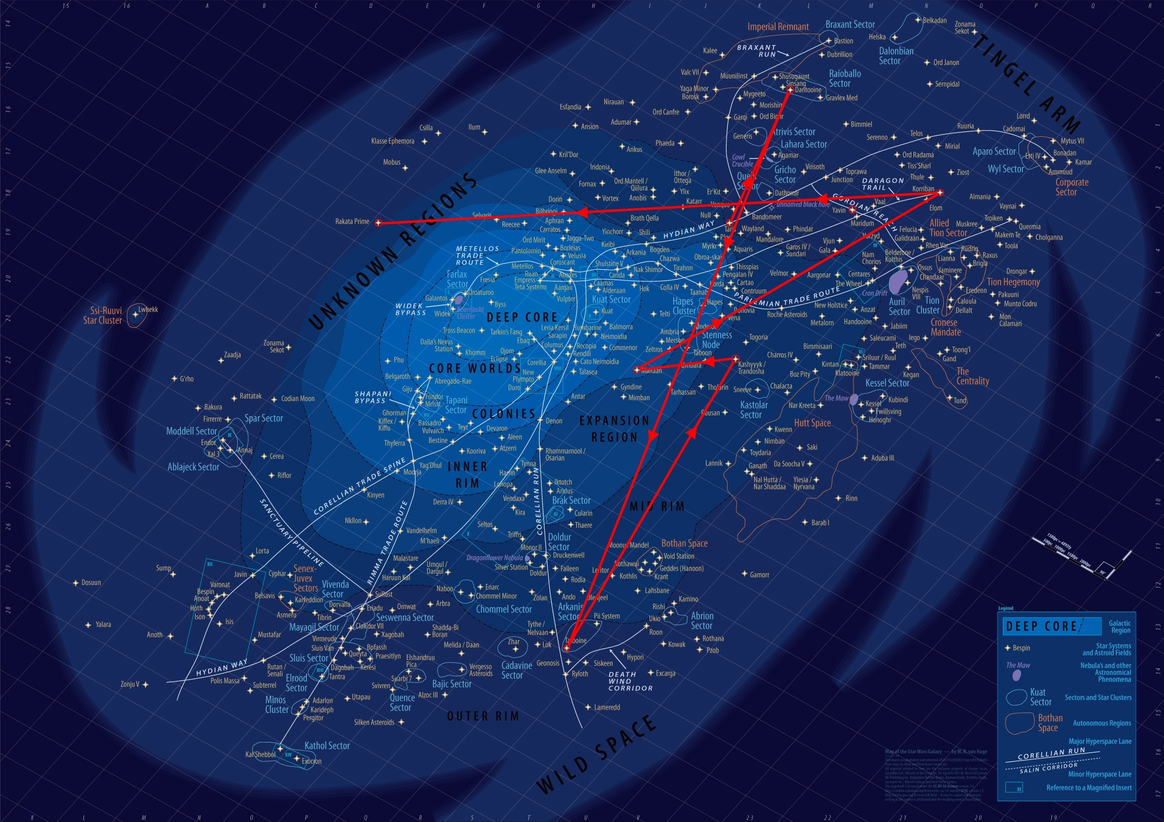 Star Wars: Knights of the Old Republic Quest map based on File:Galaxymap p1.jpg